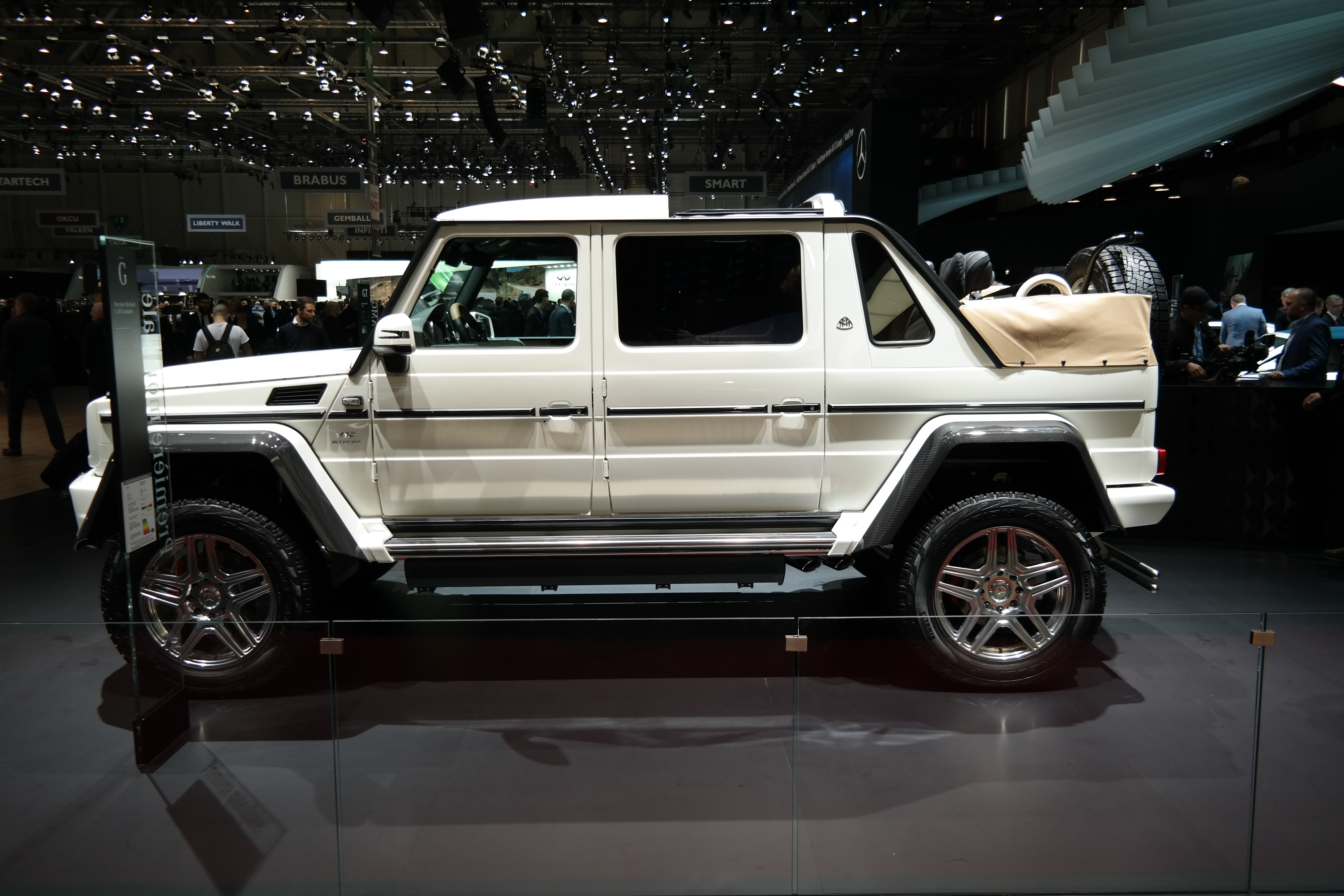 Geneva Motor Show 2017 (photo taken on the first press day)